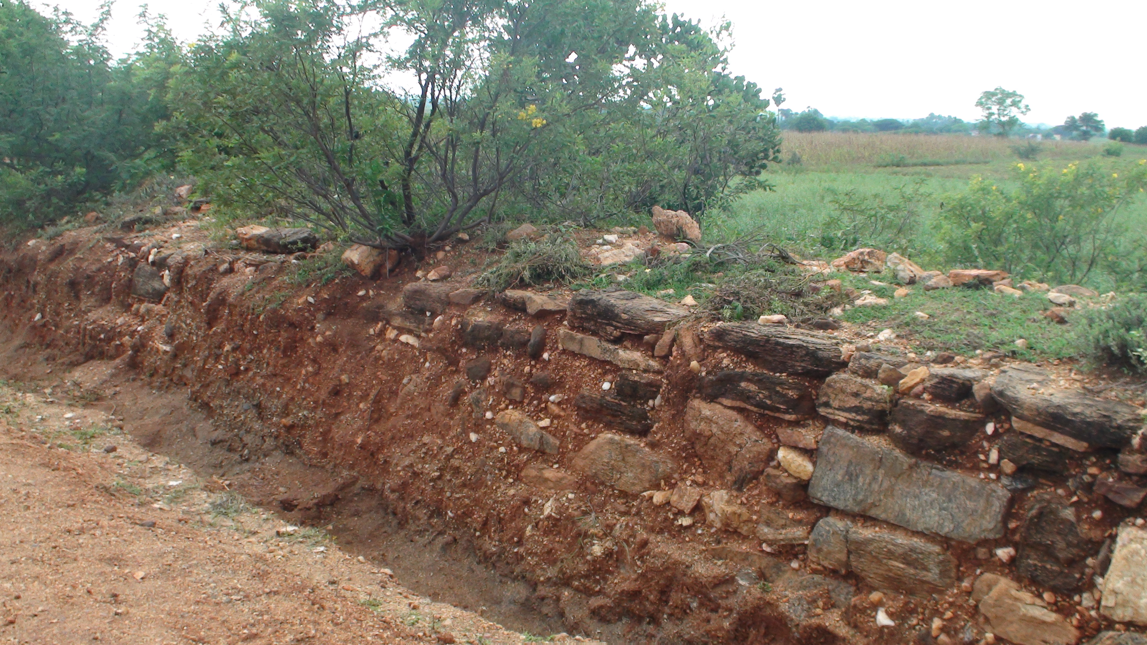 Veeriyapatti